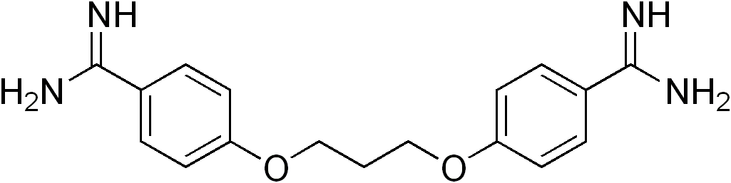 chemical structure of propamidine